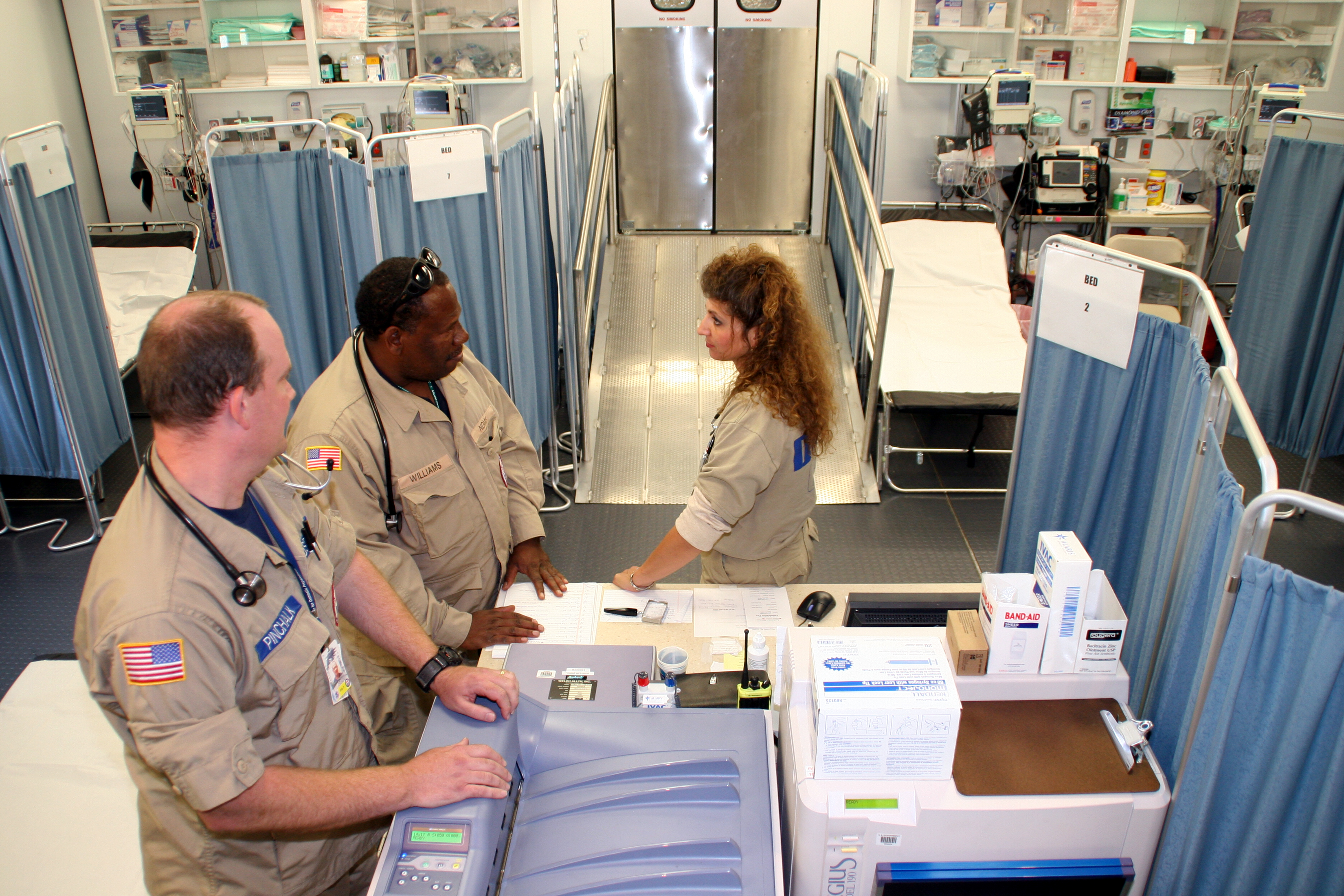 Belle Chasse, LA, October 25, 2005 - This is the main patient area inside of the Mobile Medical Unit being operated in Belle Chasse, Louisiana. This configuration is an emergency department with minor surgery capability. Robert Kaufmann/FEMA